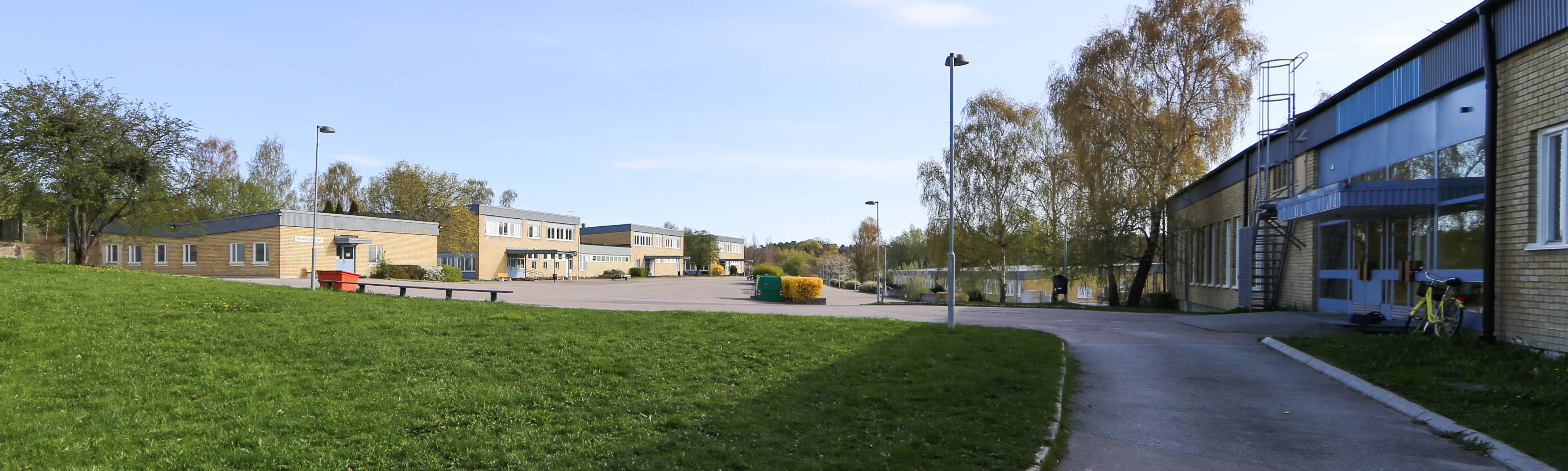 Ekhammar school, Kungsängen, Sweden